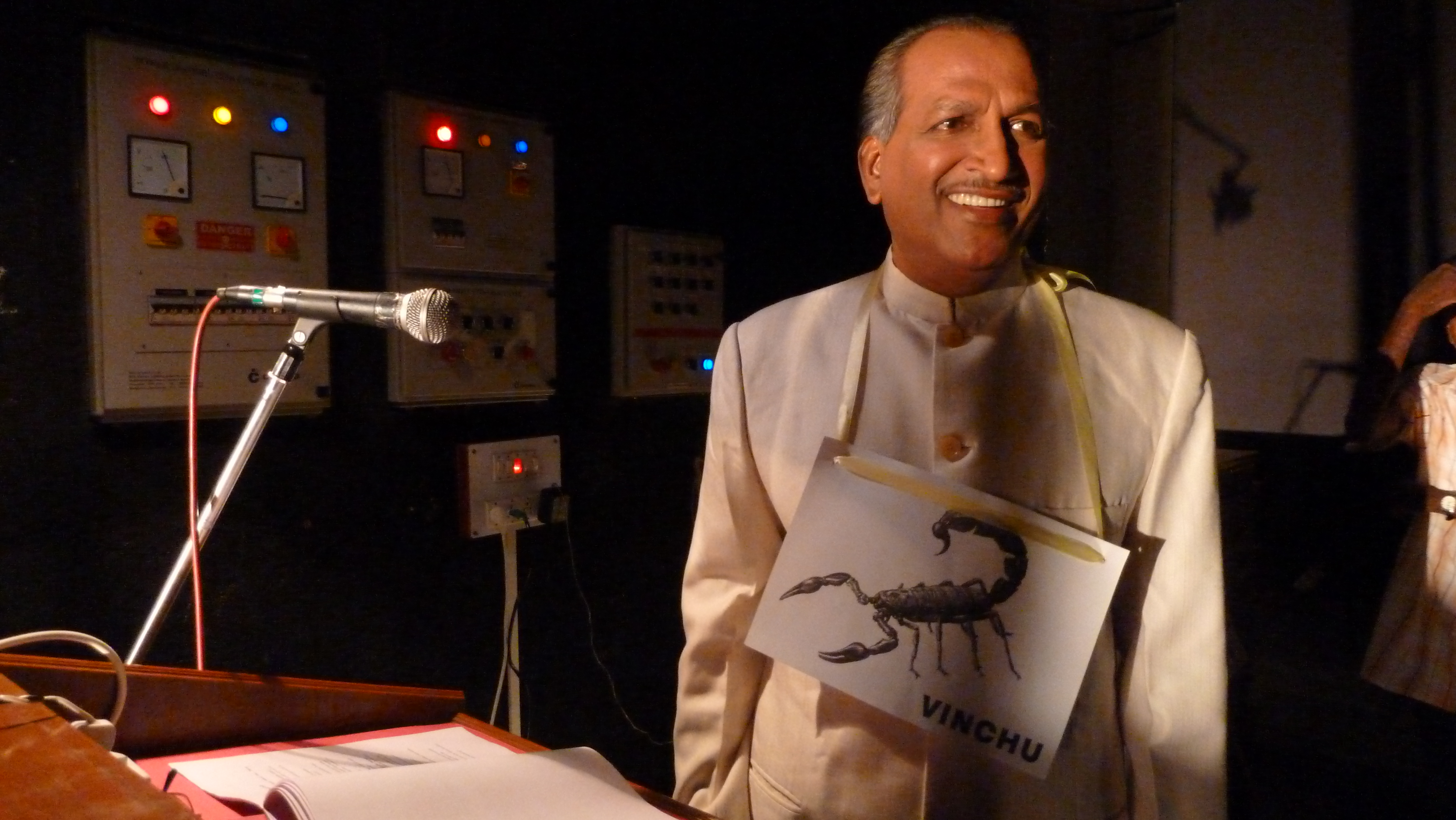 Tomazinho Cardozo, Konkani (tiatr) playwright, educationist, writer, politician. Goa. Photo by FN at the Kala Academy.